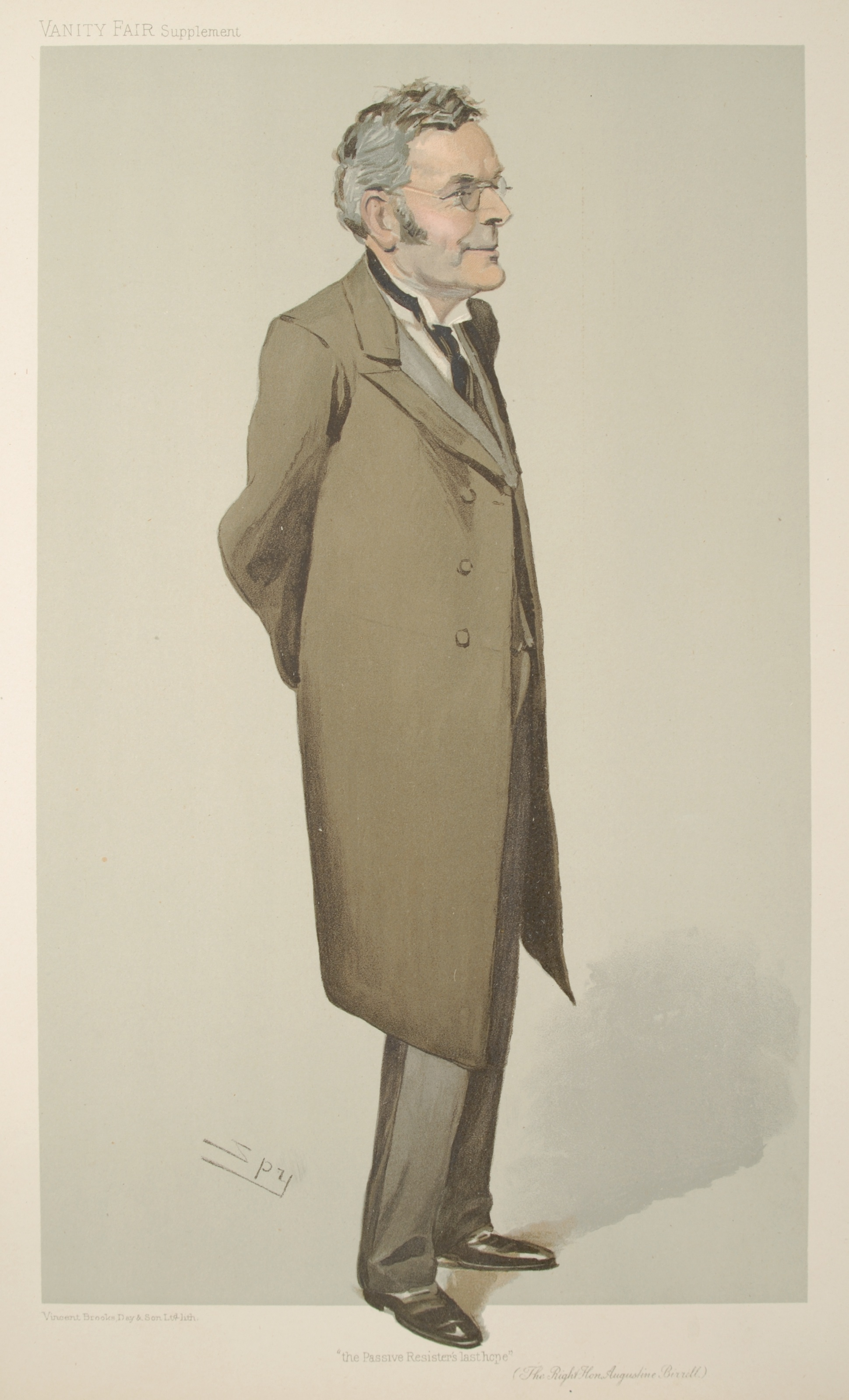 Caricature of Augustine Birrell (1850-1933). Caption read "The Passive Resister's last hope".